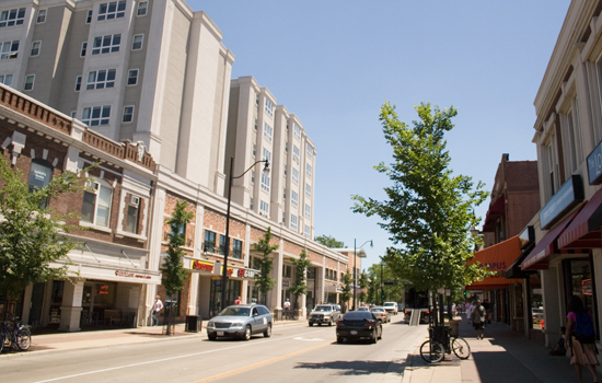 A view of Green Street in Champaign, Illinois facing east.